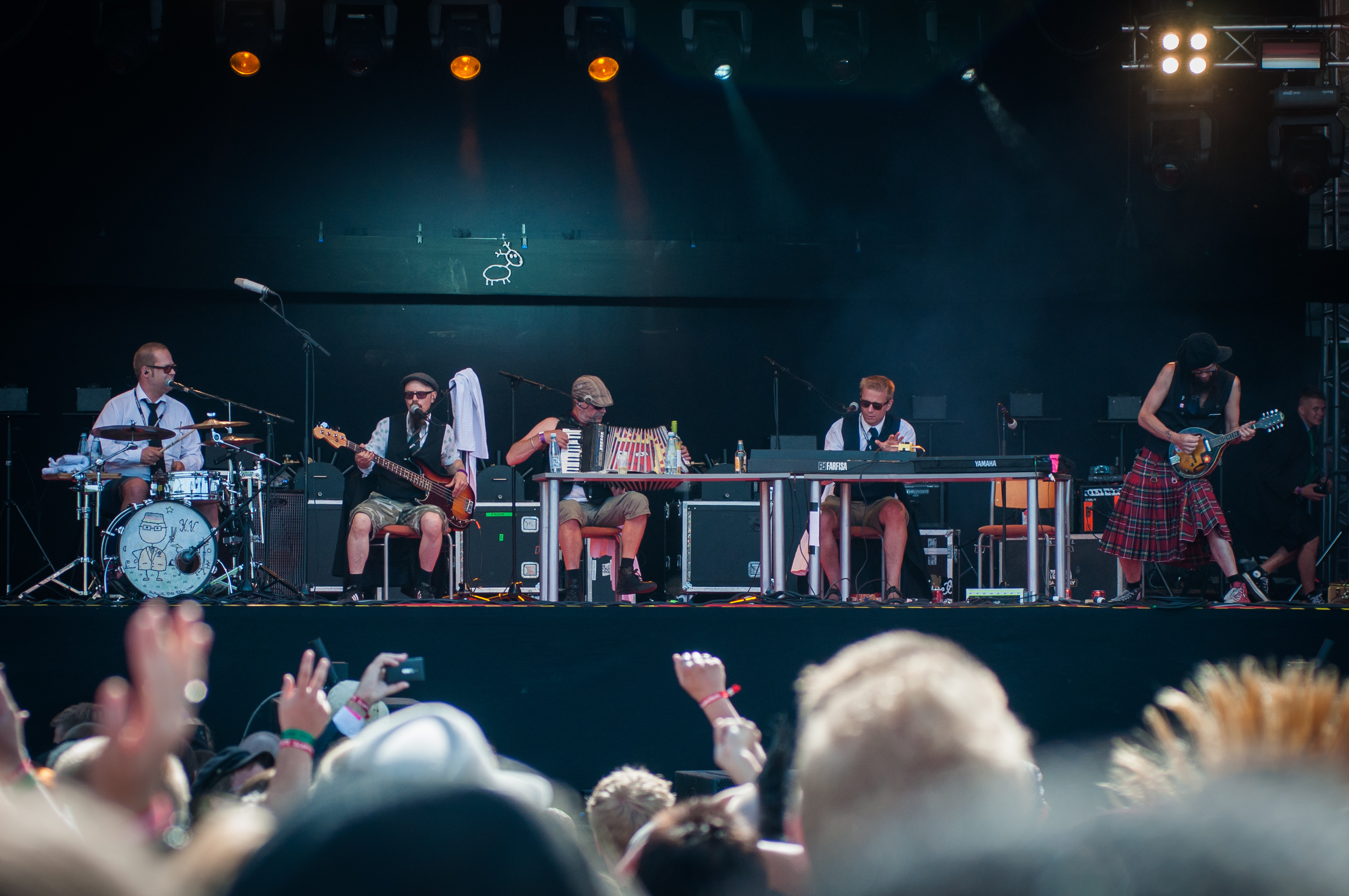 Finnish humppa band Eläkeläiset celebrating their 20th anniversary at the Ilosaarirock festival in Joensuu, Finland.